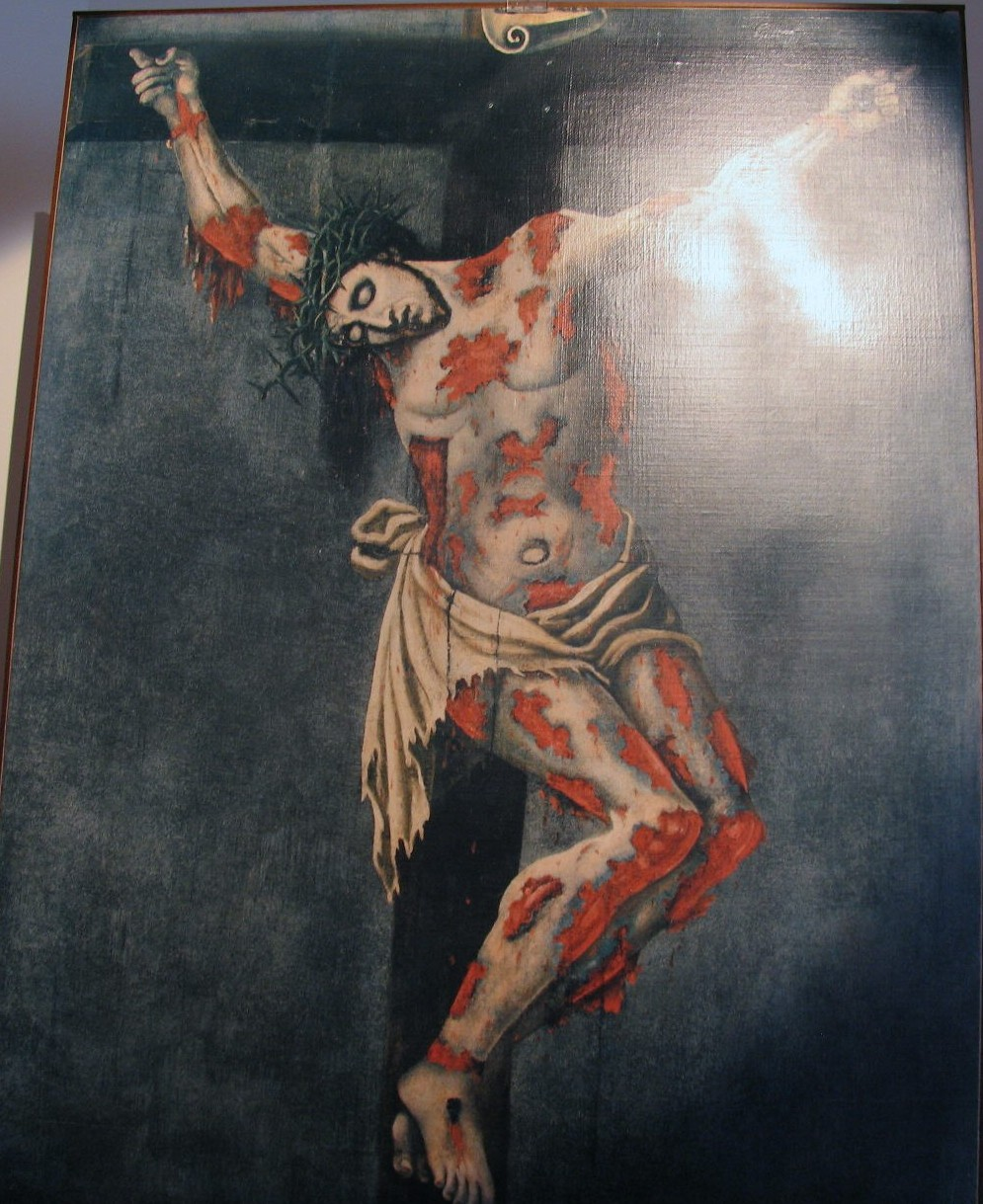 Christ at the Cross, painted by saint Alfonso Maria de' Liguori